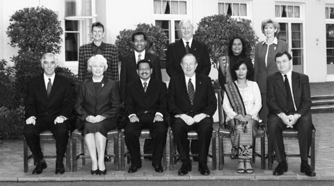 His Excellency Mr Jorge da Conceição Teme (centre left), East Timor’s first Ambassador to Australia, after presenting credentials to His Excellency the Hon. Sir Guy Green, AC KBE CVO, Administrator of the Commonwealth of Australia (centre right) in May 2003. Also pictured are Deputy Secretary, Peter Grey (seated, far right) and Chief of Protocol, Matthew Peek (seated, far left).